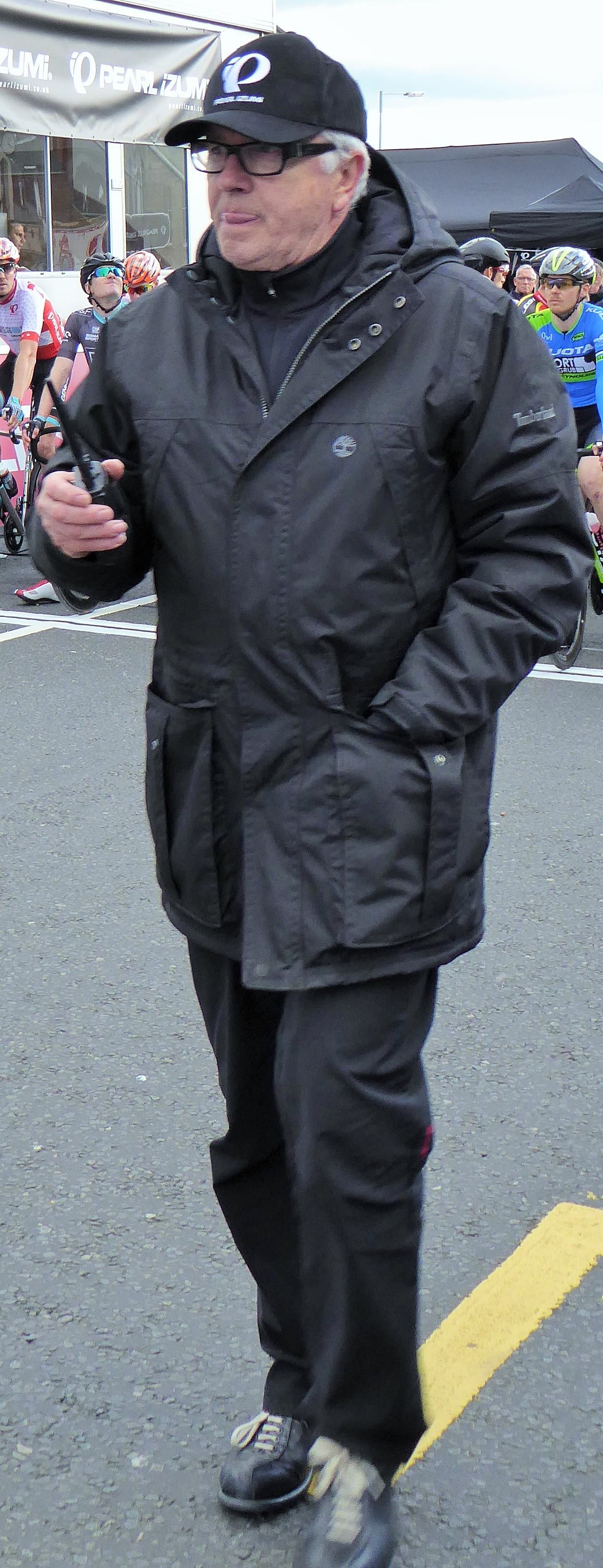 Mick Bennett, race director, pictured at Round 4 of the Pearl Izumi Tour Series in Motherwell on 26 May 2015. Depicted person: Michael Bennett